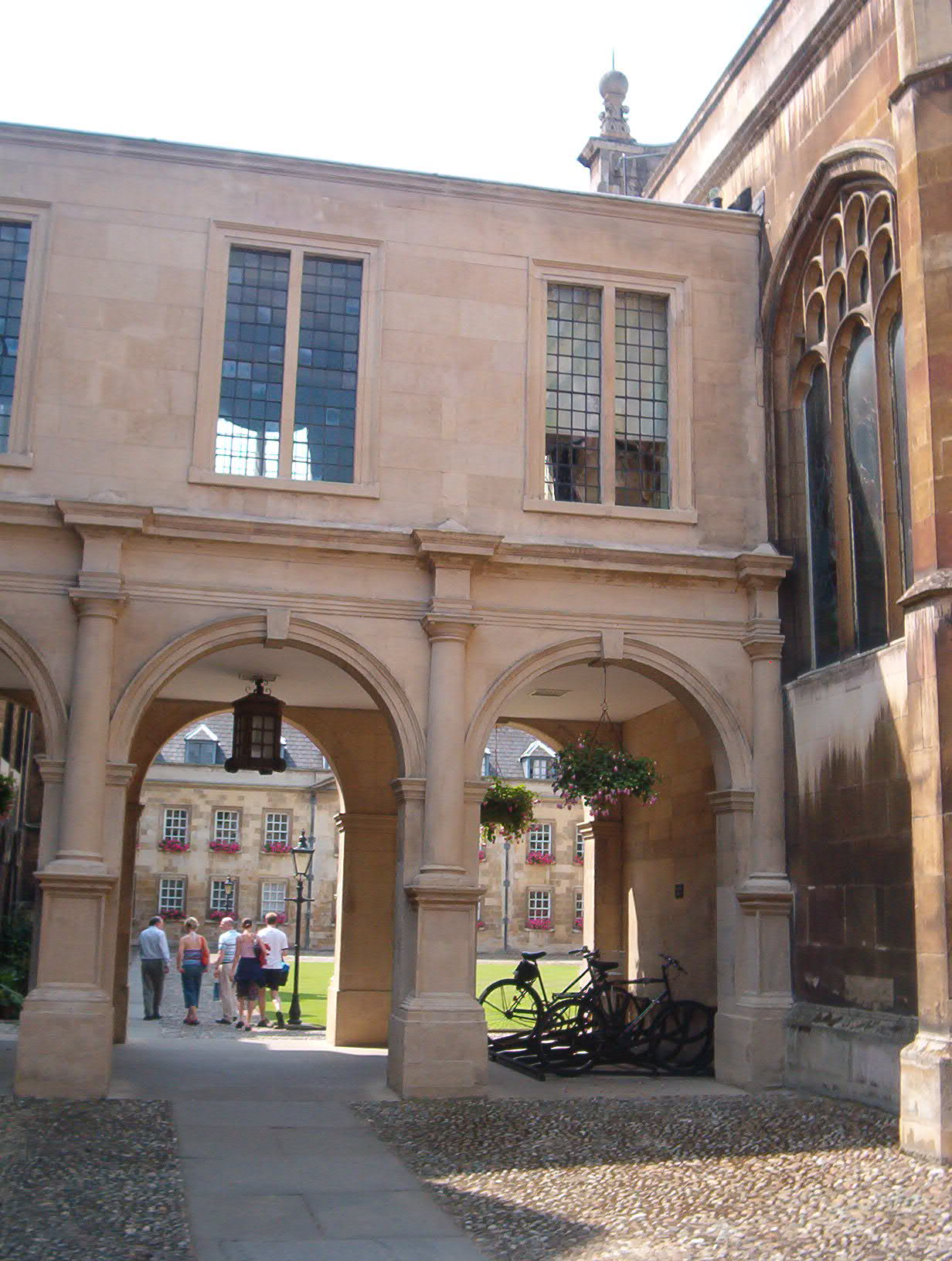 Chapel cloisters of Peterhouse, Cambridge, through which Old Court can be seen. Photo by Azeira, August 2004.